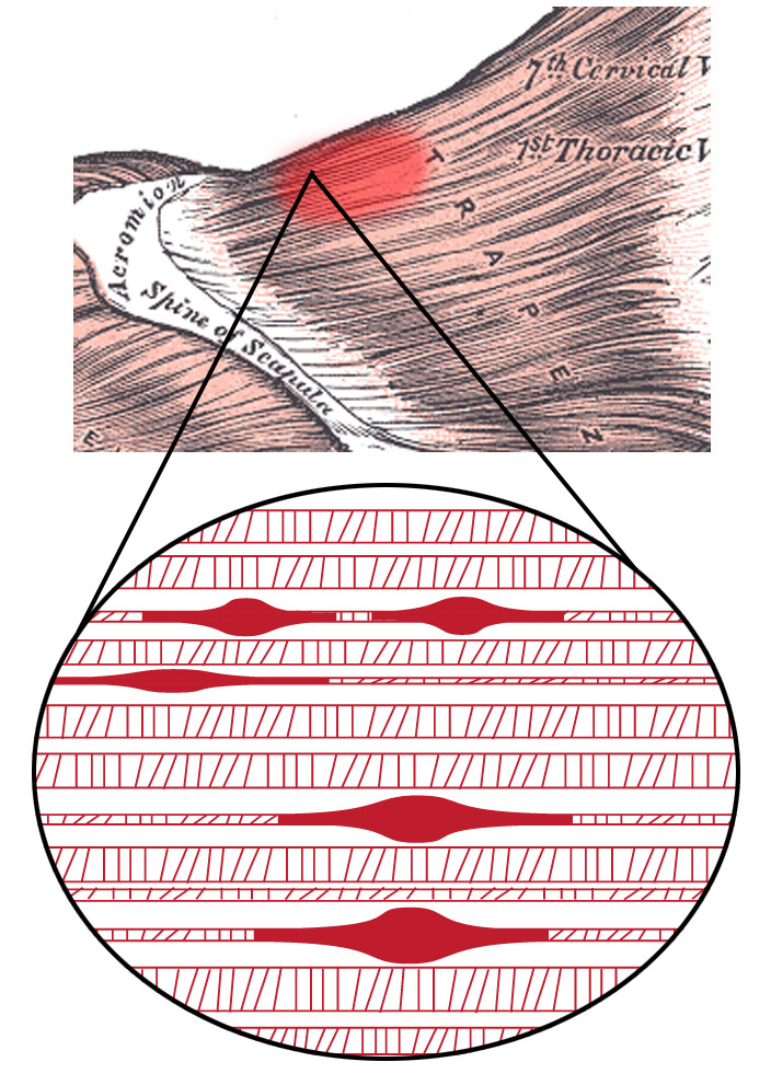 Schematic of a trigger point